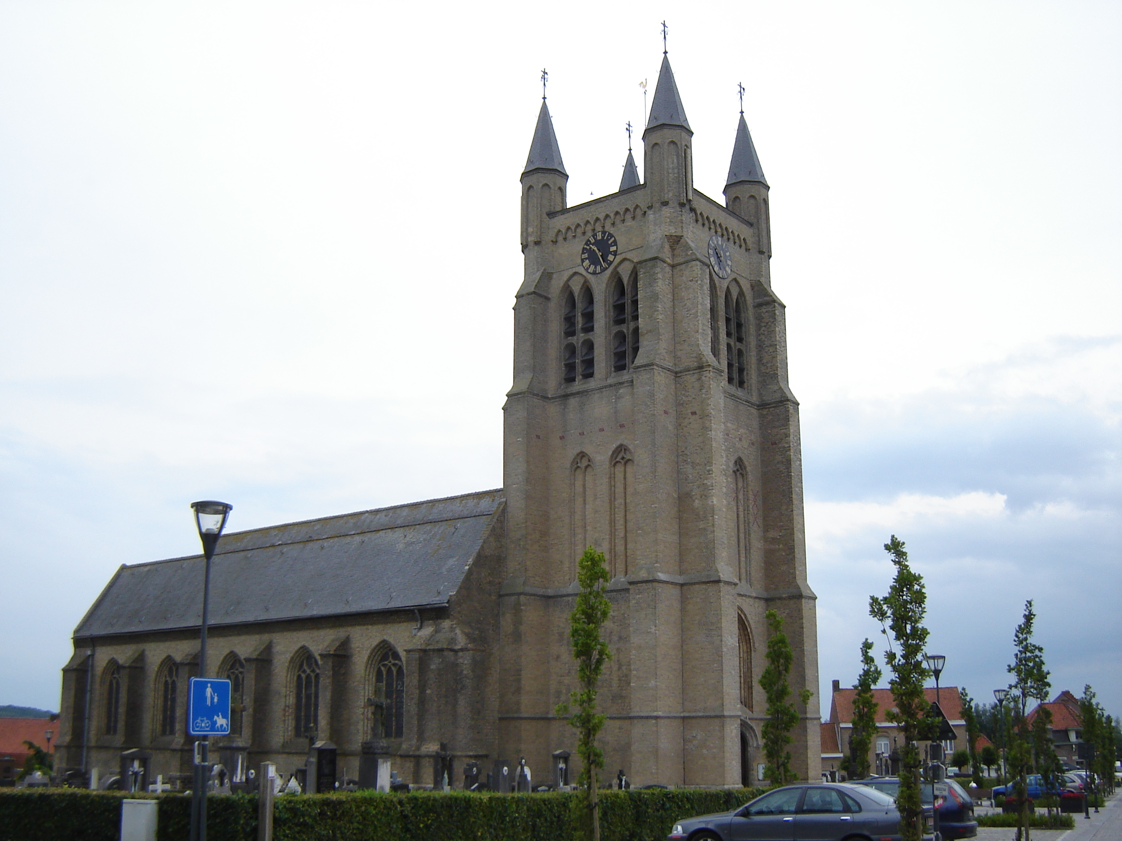 Church of Saint Peter in Loker, Heuvelland, West Flanders, Belgium.